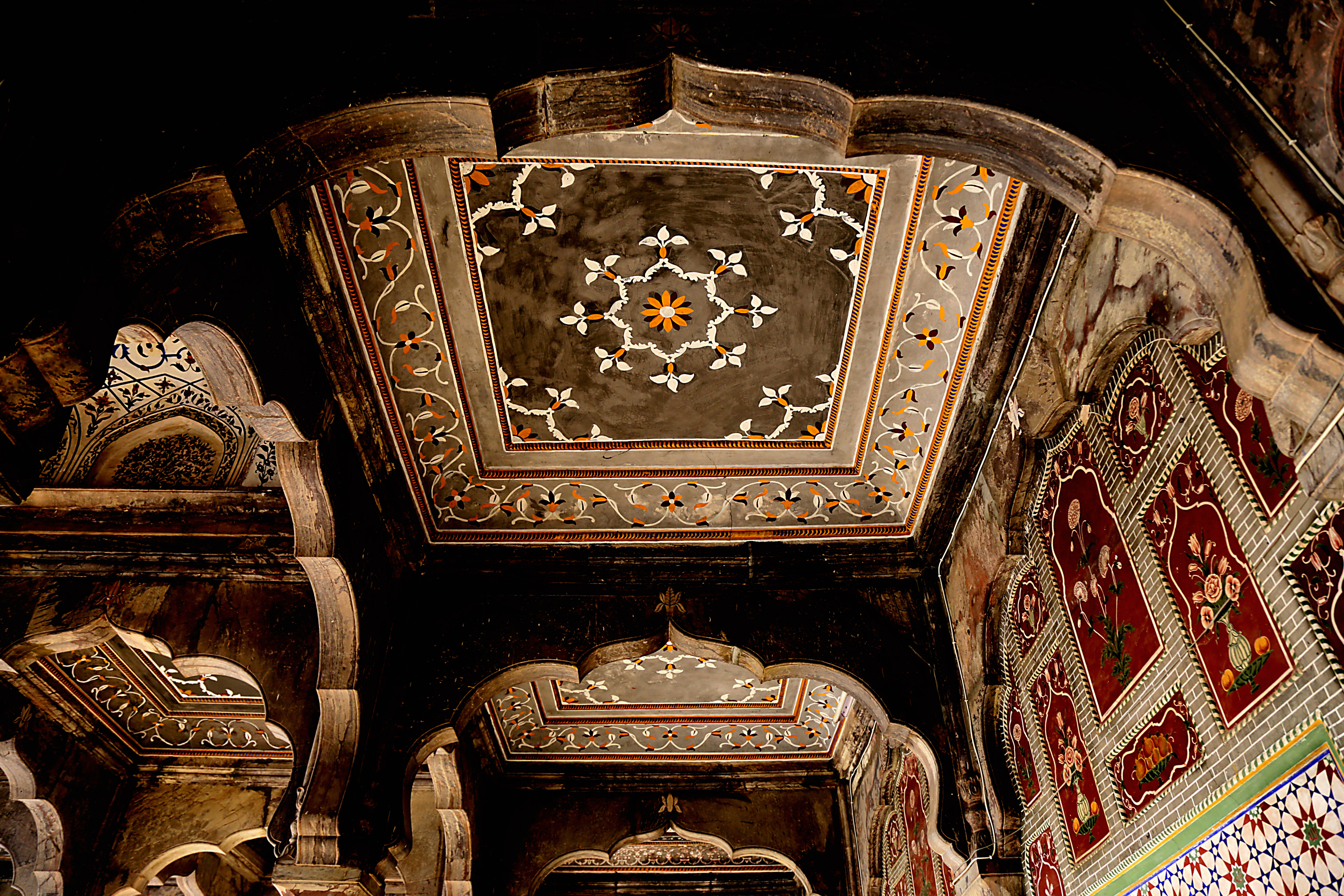 Chiniot’s Shahi Masjid (Badshahi Mosque) was built by Nawab Saad UlIah Khan (1595- 1655) during the regime of Emperor Shah Jahan (1628-58). It was built during 1646 to 1655 AD. It is an exceedingly handsome edifice of hewn stone obtained from the hills near Chiniot. The mosque is set on a single-storey podium with perimeter shops. The external façades are distinguished by their prominent decoration and by the four corner towers. The internal court has an ablution pool and three domes over a gallery bordering the prayer hall. The intervention, mainly minor repairs and redecoration, was important to re-establish the prominence of the mosque within the urban fabric. This is a photo of a monument in Pakistan identified as the PB-P-1